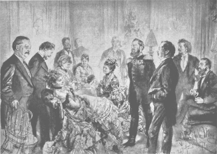 Soirée at the Schleinitz salon, Berlin, 1875